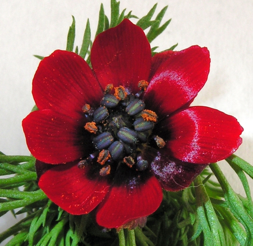 The flower of Adonis flammea. Moscow region, Russia.